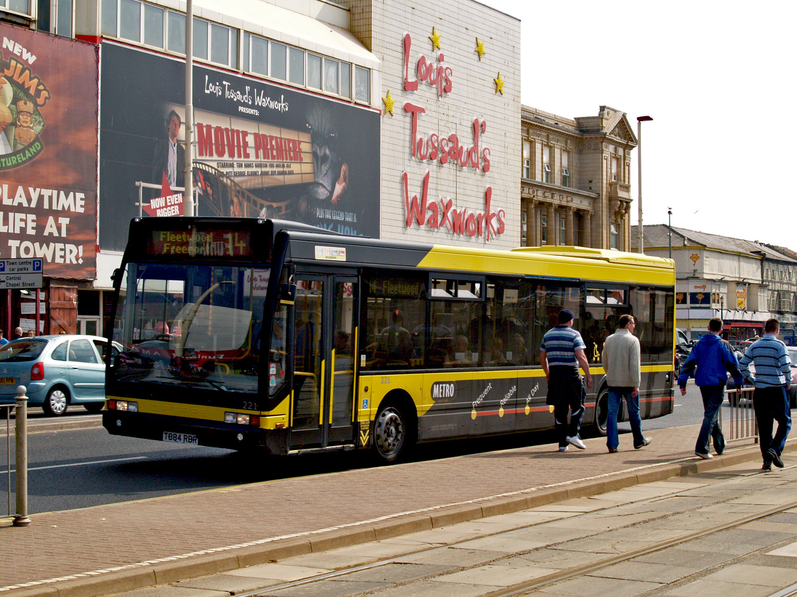 Blackpool Transport Services Limited (formerly Go Coastline) 221 T884 RBR, an Optare ‘Excel’ L1150 built 1999 with an Optare B41F body on the Promenade, Blackpool near the junction with Chapel Street with a St Annes Square to Fleetwood Freeport via Spring Gardens, South Shore Cricket Club, Spen Corner, Blackpool, Sour Lane Ends, and Broadwater 14 service. Friday 17th April 2009